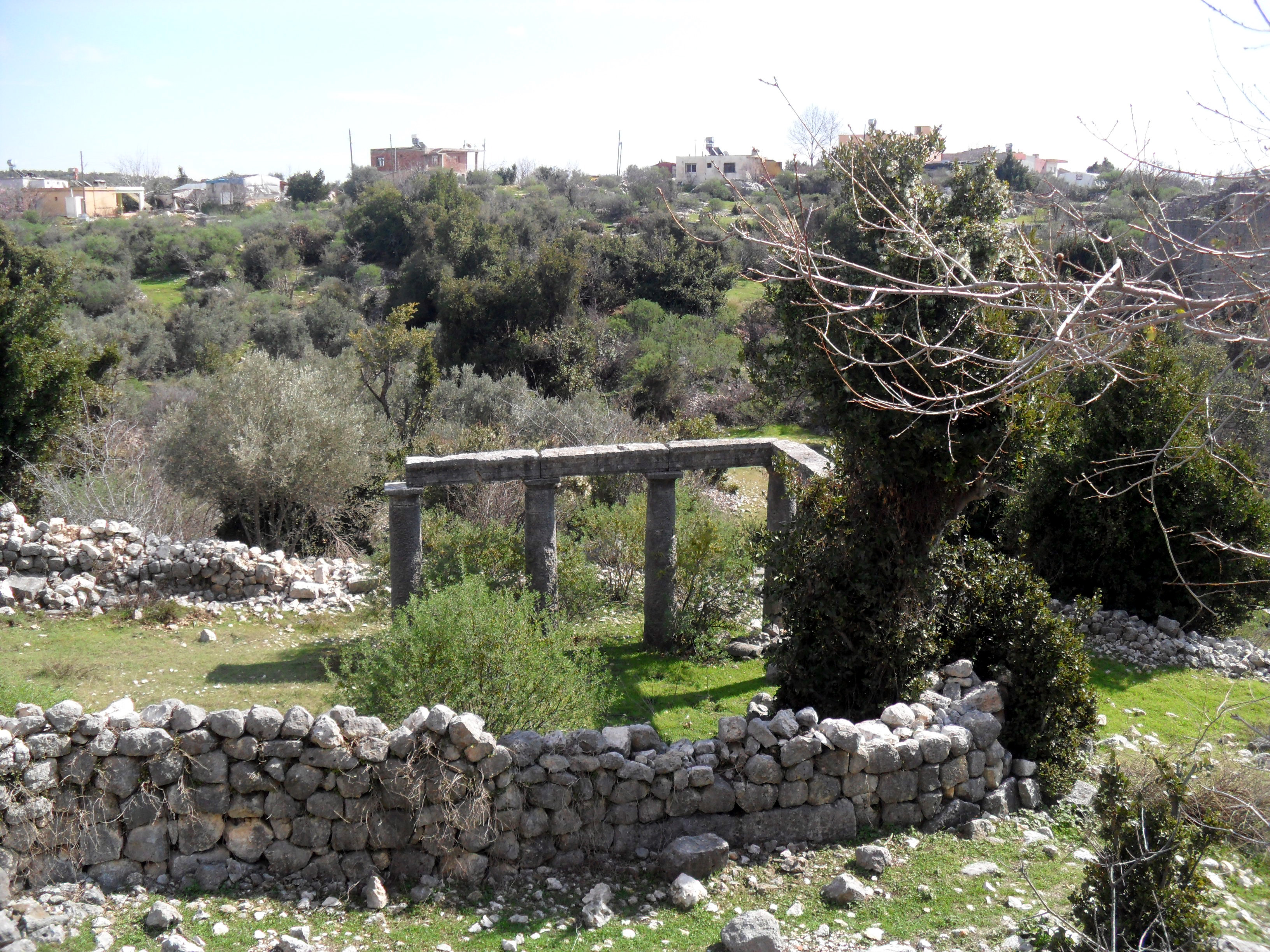 Pergola, Karaahmatli, Erdemli, Mersin Province, Turkey